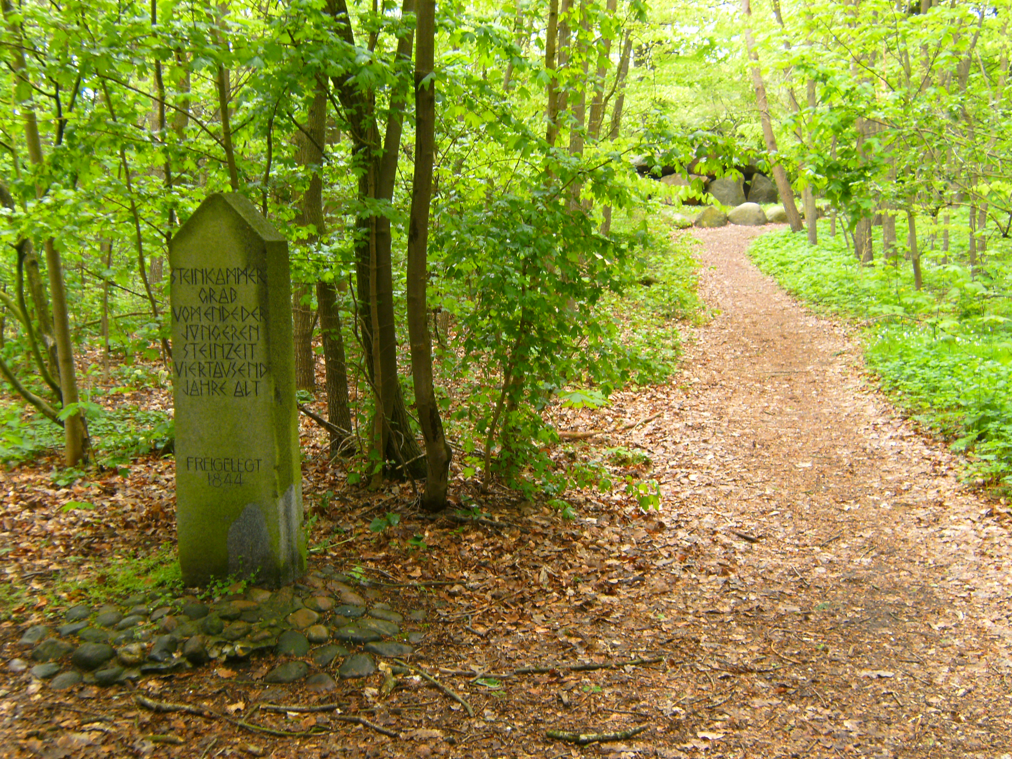 Megalithic burial place southwest of Pöppendorf (Pöppendorfer Großsteingrab) near Lübeck, Germany. Road from Pöppendorf to Waldhusener Forst, then entrance to the forest.